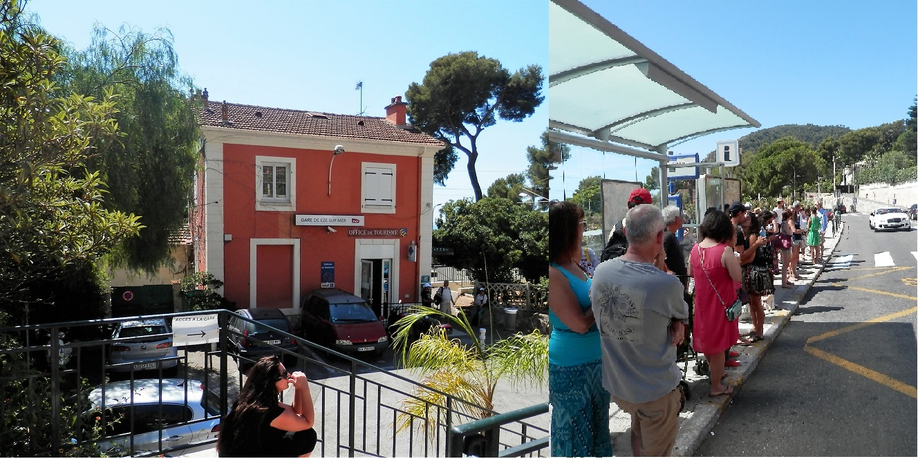 Railway building Eze-sur-Mer with tourist office and bus stop from where its possible to reach Eze Village.